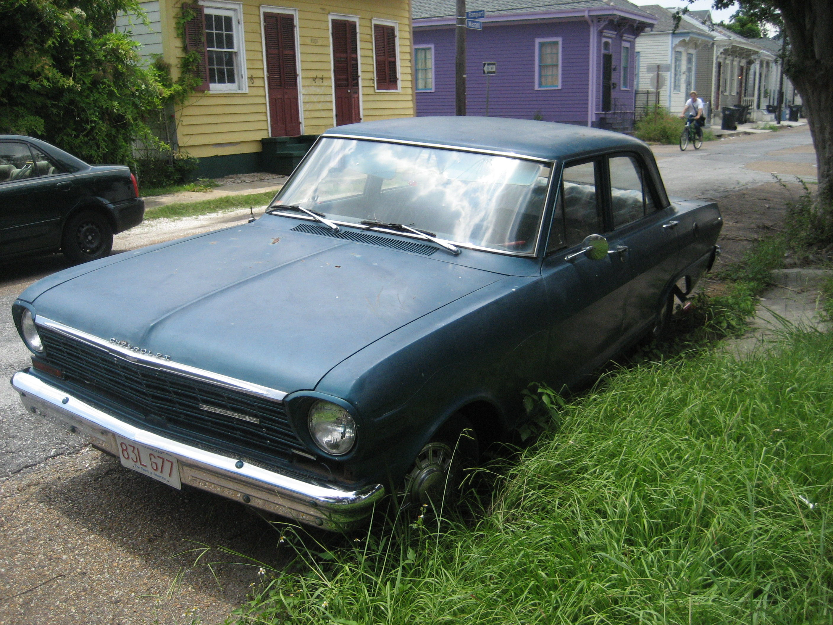 Chevy II 100 seen on street in Bywater section of New Orleans